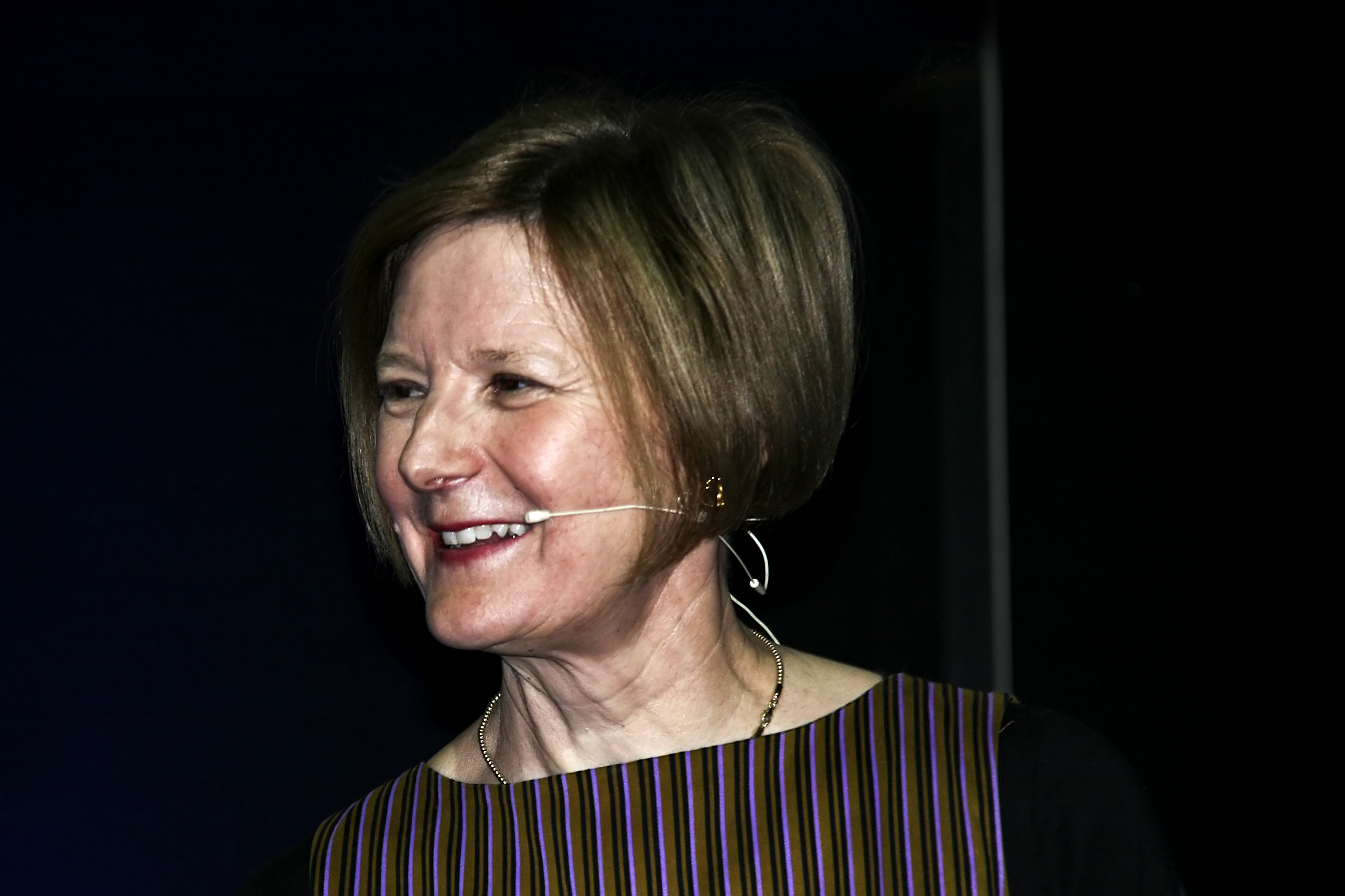 Event: Meet the Media Guru | Helen Boaden Date: 15/03/2015 Venue: RadioCity Milano - Fabbrica del Vapore - Milan, Italy Twitter: @mmguru / #MeetBOADEN Photo by Daniel Trudu